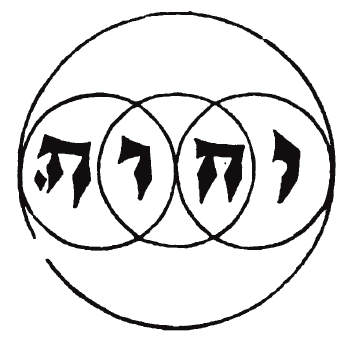 Taken from Petrus Alfonsi's (Moses Sepharadi), Dialogi contra Iudaeos, written in 1108 or 1110, as reproduced in Migne's Patrologia Latina, Vol. 157, col. 611.